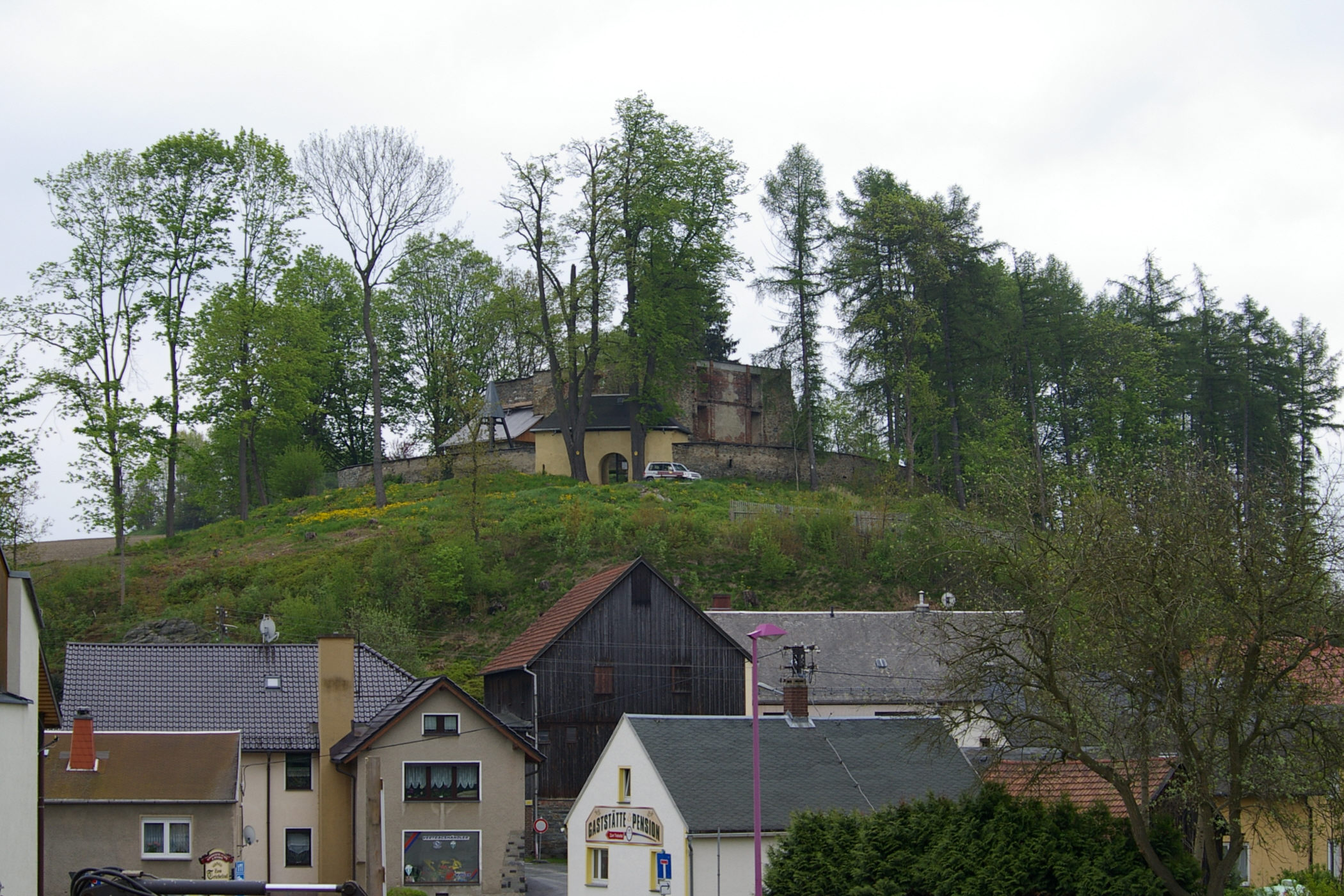 The church hill in the village Triebel